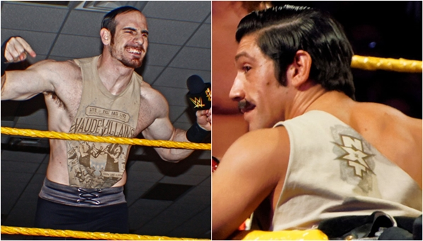 Professional wrestlers Aiden English and Simon Gotch.